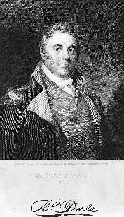 Photo #NH 51764. Captain Richard Dale, USN